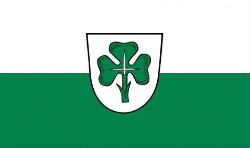 Flag of the city of Fürth